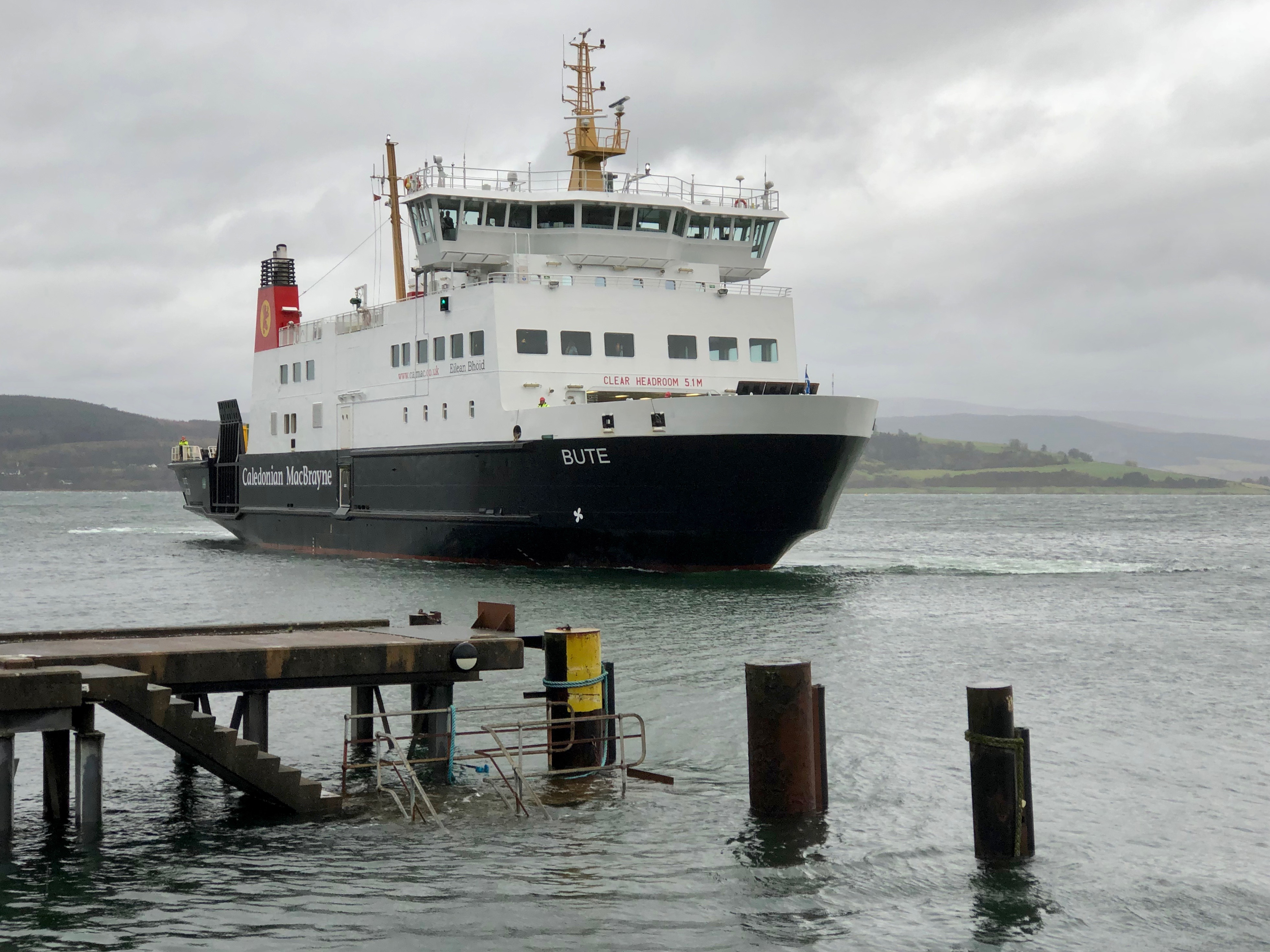 MV Bute arriving at Gourock pier during Storm Erik, sailing from Rothesay diverted to Gourock as Wemyss Bay pier was closed by the storm.